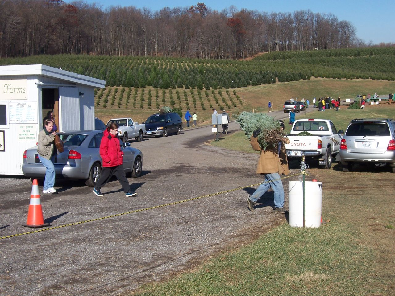 A choose and cut style Christmas tree farm in Maryland.